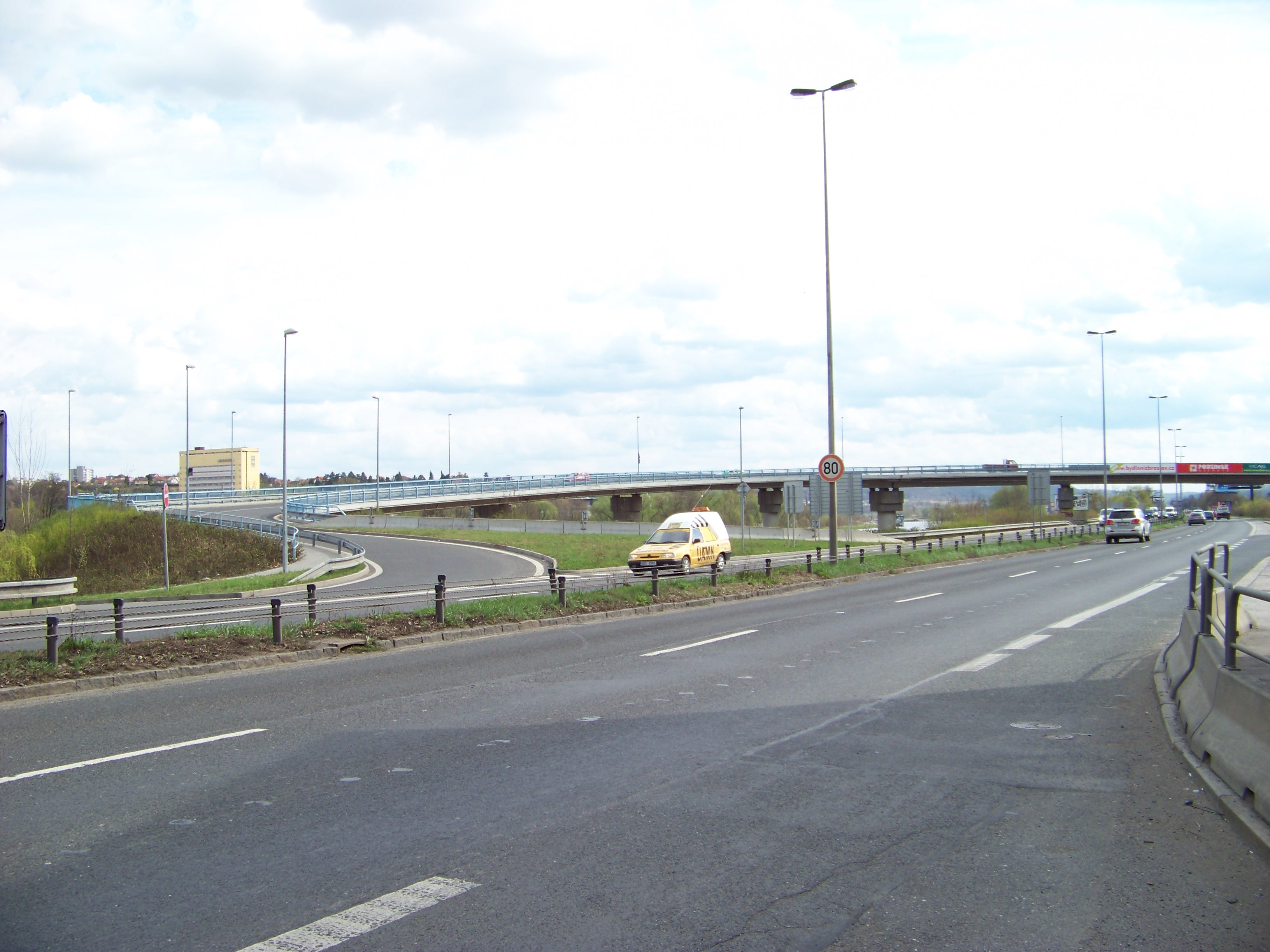 Prague-Malá Chuchle, the Czech Republic. A bridge of Mezichuchelská street over Strakonická street, seen from Zbraslavská street. s - Google Maps - Google Earth